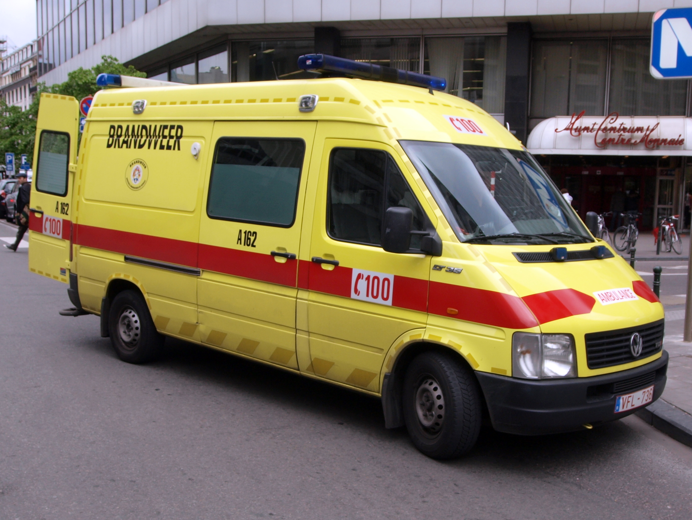 Photographed in Belgium.